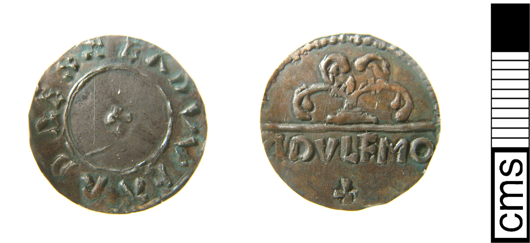 Dr Gareth Williams, The British Museum, has examined images of this coin and others found with it and identified them as modern replicas produced from dies by Mr Trevor Ashmore. Examples of these replicas can be found in the British Museum, Coins and Medals, forgeries cabinet and all four examples of these replica coins are represented in an upcoming catalogue of modern replicas/fakes. It reproduces an Early-Medieval Edward the Elder Penny, Local type. It is silver and 20mm in diameter, weighing 1.51g (23.2gn). It has a die axis of 9. Moneyer: Athulf Mint: North-Western Date: 899-924 Ref: North probably 658; Spink 1078. For a close parallel see Mack Collection 760 (SCBI 20 (1973) plate XXIV)